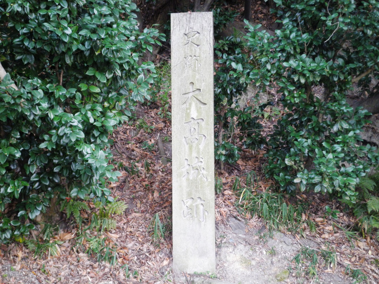 The Monument of Odaka Castle Site located in Aichi pref.,Japan.